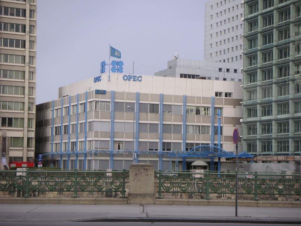 OPEC headquarters in Vienna